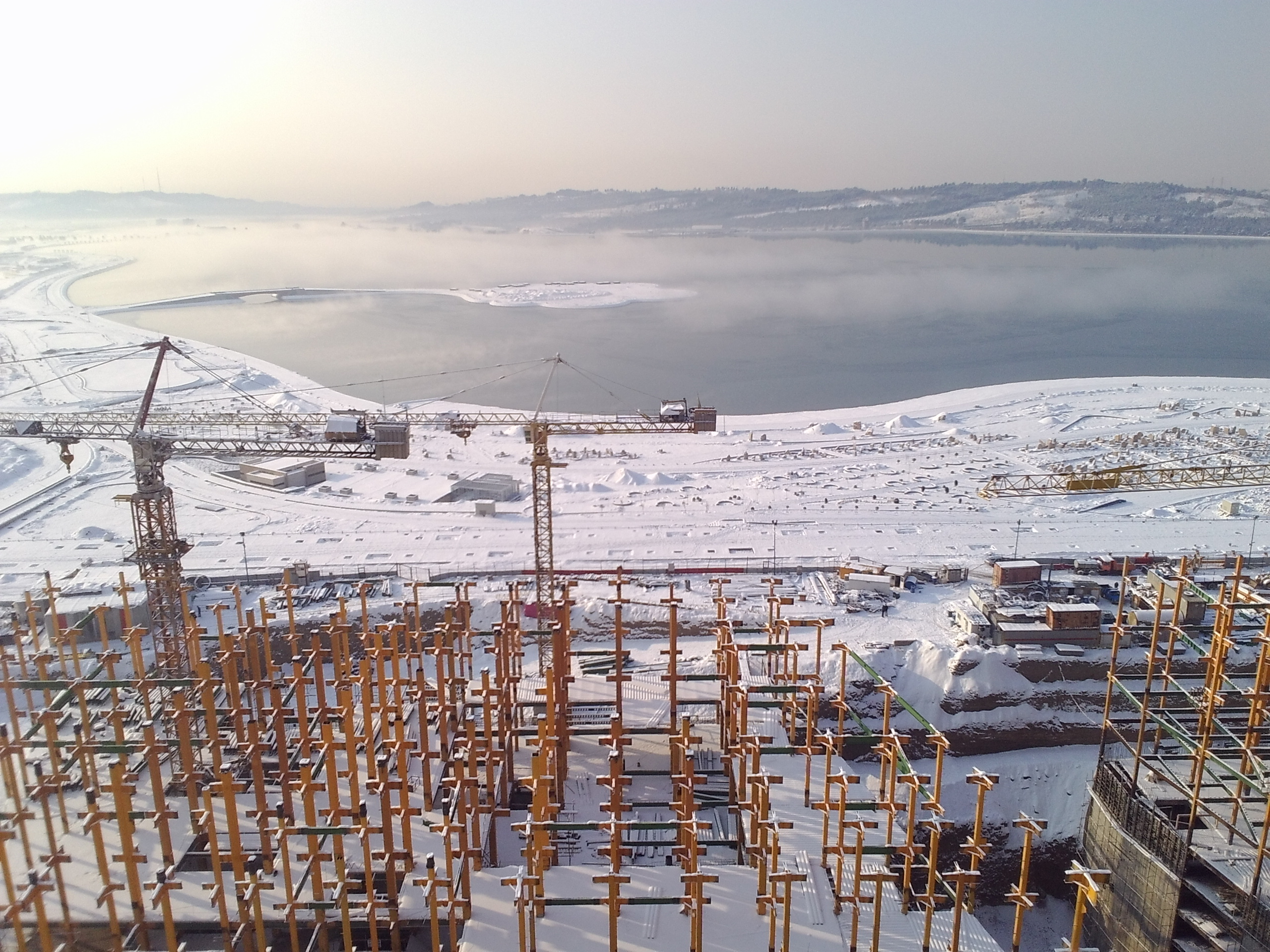 Chitgar lake in Tehran. Snow day.